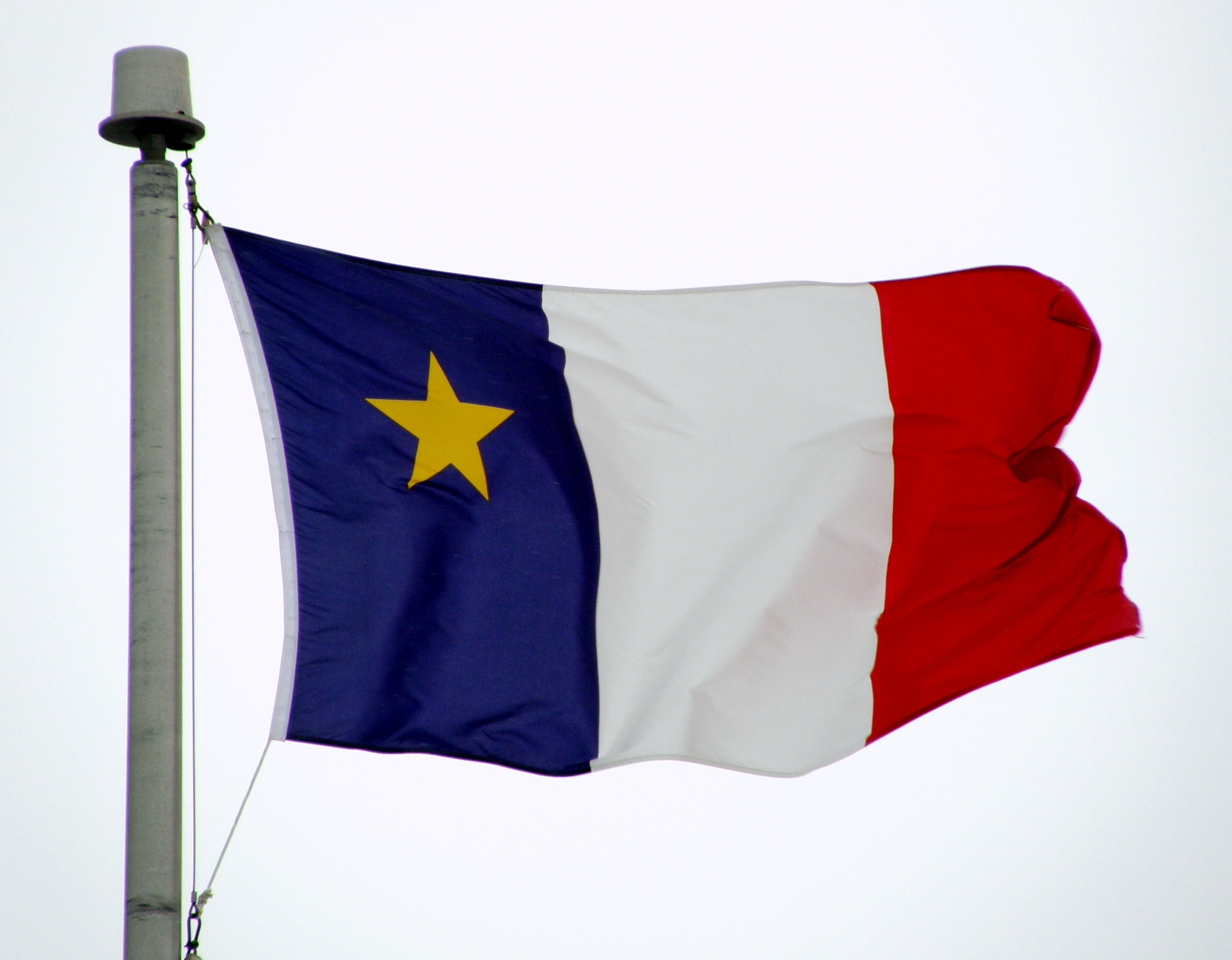 Flag of Acadia, flying in Moncton, New Brunswick, Canada